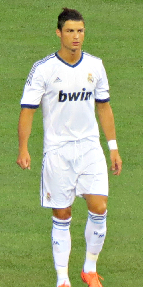 Ronaldo during a friendly game against AC Milan before the beginning of the season.